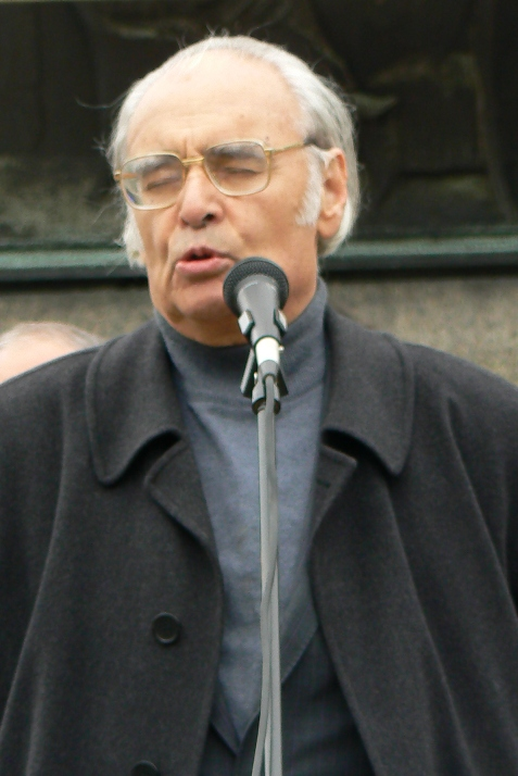 Bulgarian writer and acad. Anton Donchev